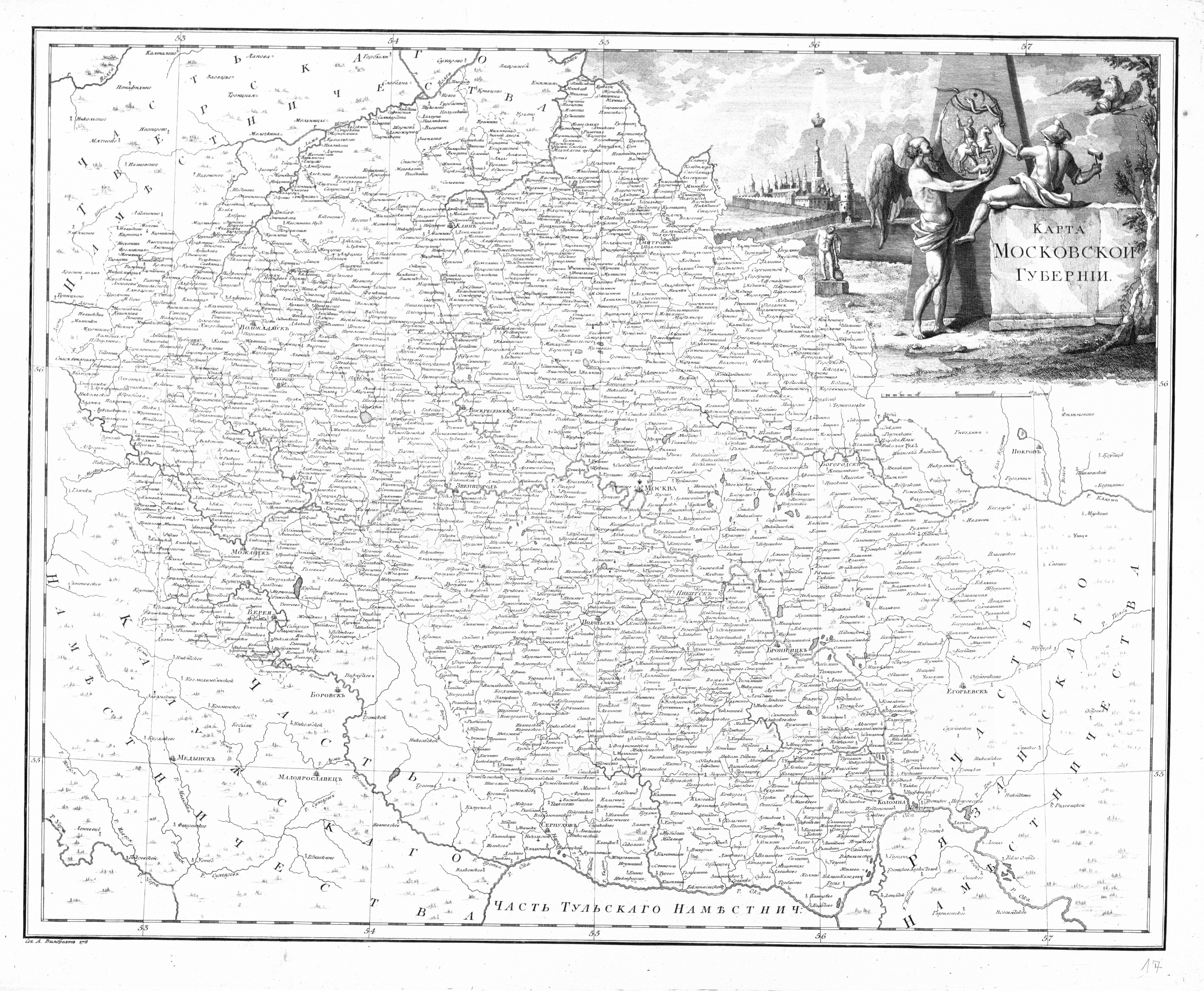 Map of Moscow Governorate (sheet 17) from official Atlas of the Russian Empire (1792).